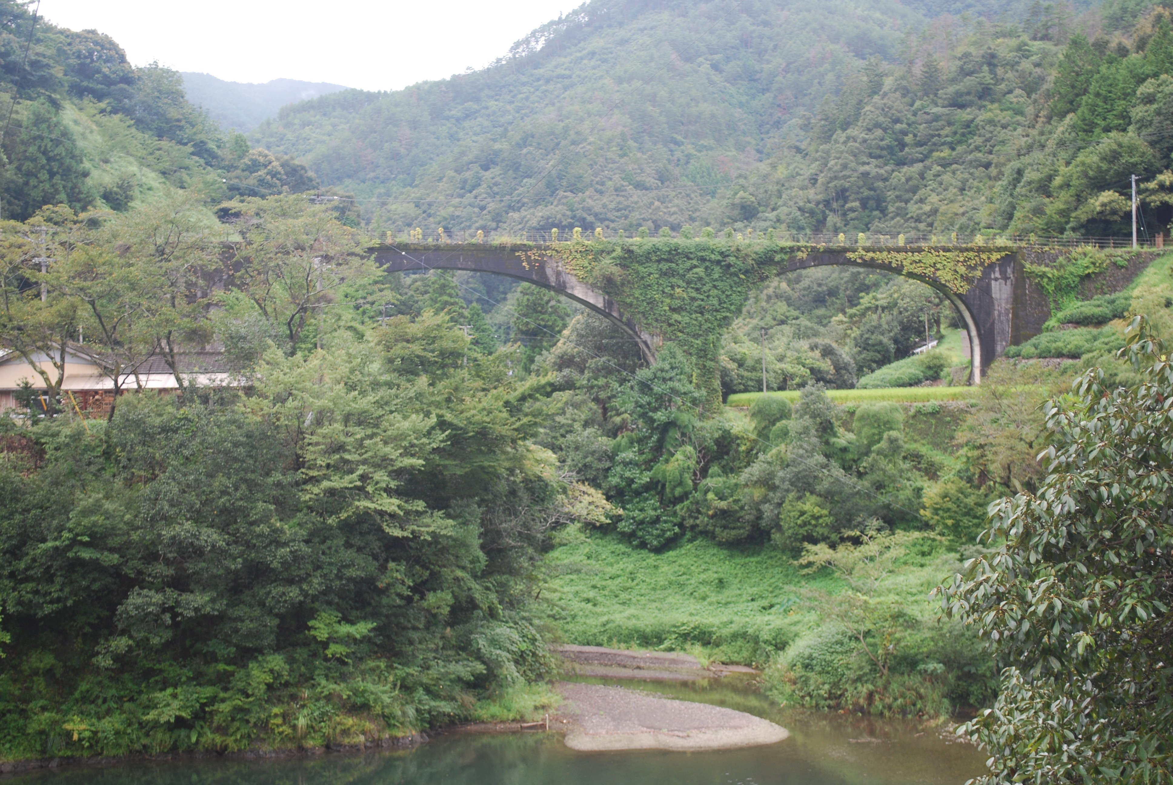 Sagawa-bridge,Shimanto-cho,Japan